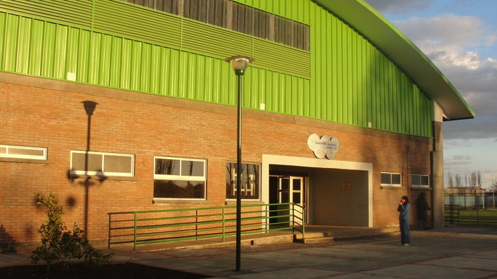 Gimnasio Bicentenario.jpg